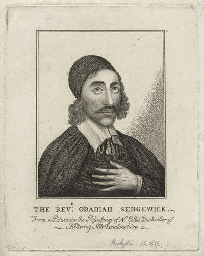 Obadiah Sedgwick (1600?-1658), puritan clergyman